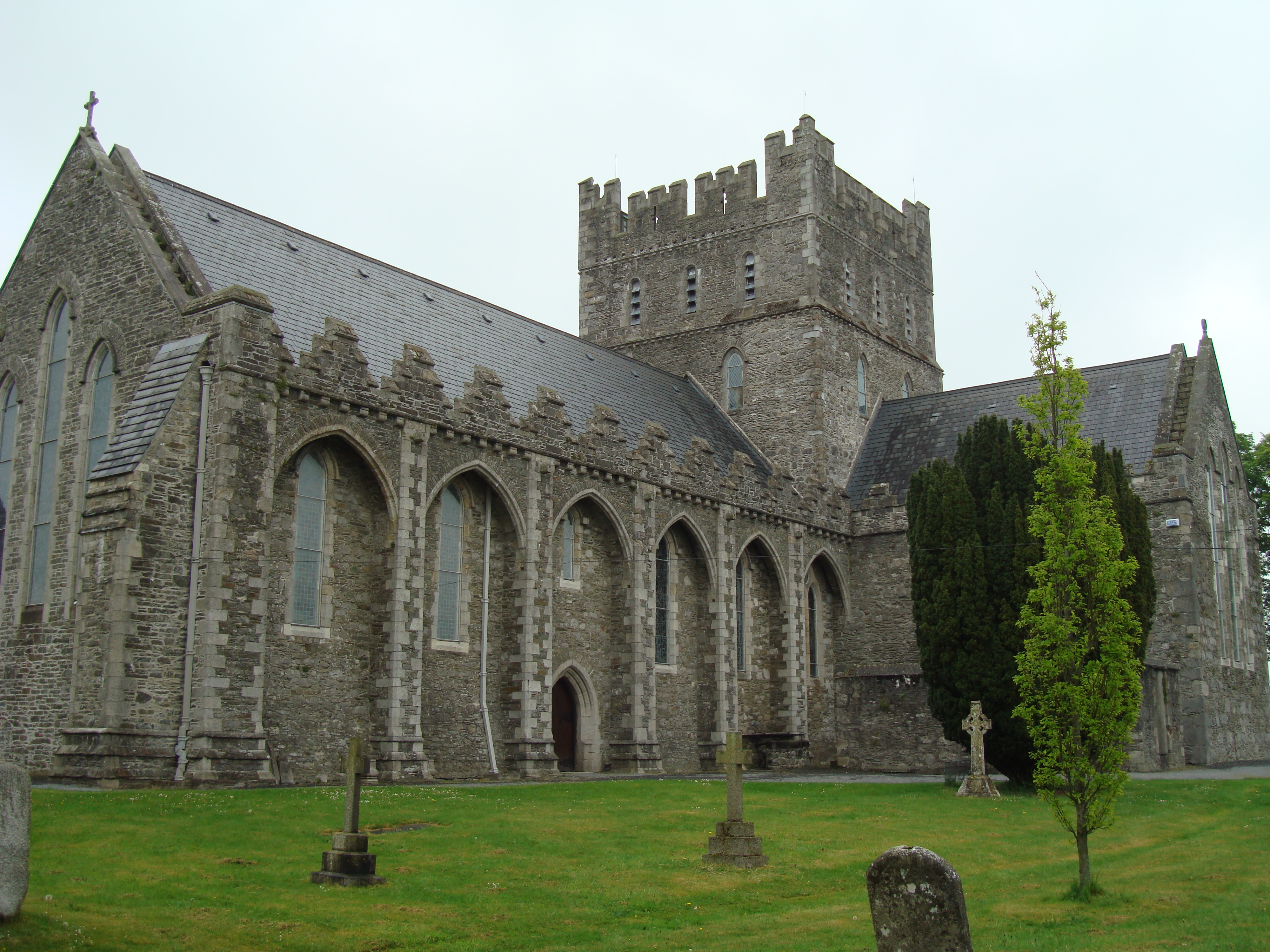 Photograph of Kildare Cathedral, Co. Kildare, Republic of Ireland